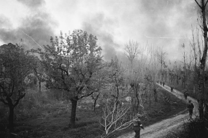 Infantry from the 25th Battalion following closely behind their flame throwing tanks in the attack on the Senio River, Italy. Photograph taken by George Kaye, 9 April, 1945. New Zealand. Department of Internal Affairs. War History Branch :Photographs relating to World War 1914-1918, World War 1939-1945, occupation of Japan, Korean War, and Malayan Emergency. Ref: DA-08359-F. Alexander Turnbull Library, Wellington, New Zealand. George Kaye was an official photographer of the NZ Military Forces and thus copyright in this work rests or rested with the Crown. The Crown has released this work under the CC-BY 3.0 unported license. Refer to source website for details: This work's copyright expired 50 years after creation in New Zealand and probably also in countries following the rule of the shorter term.